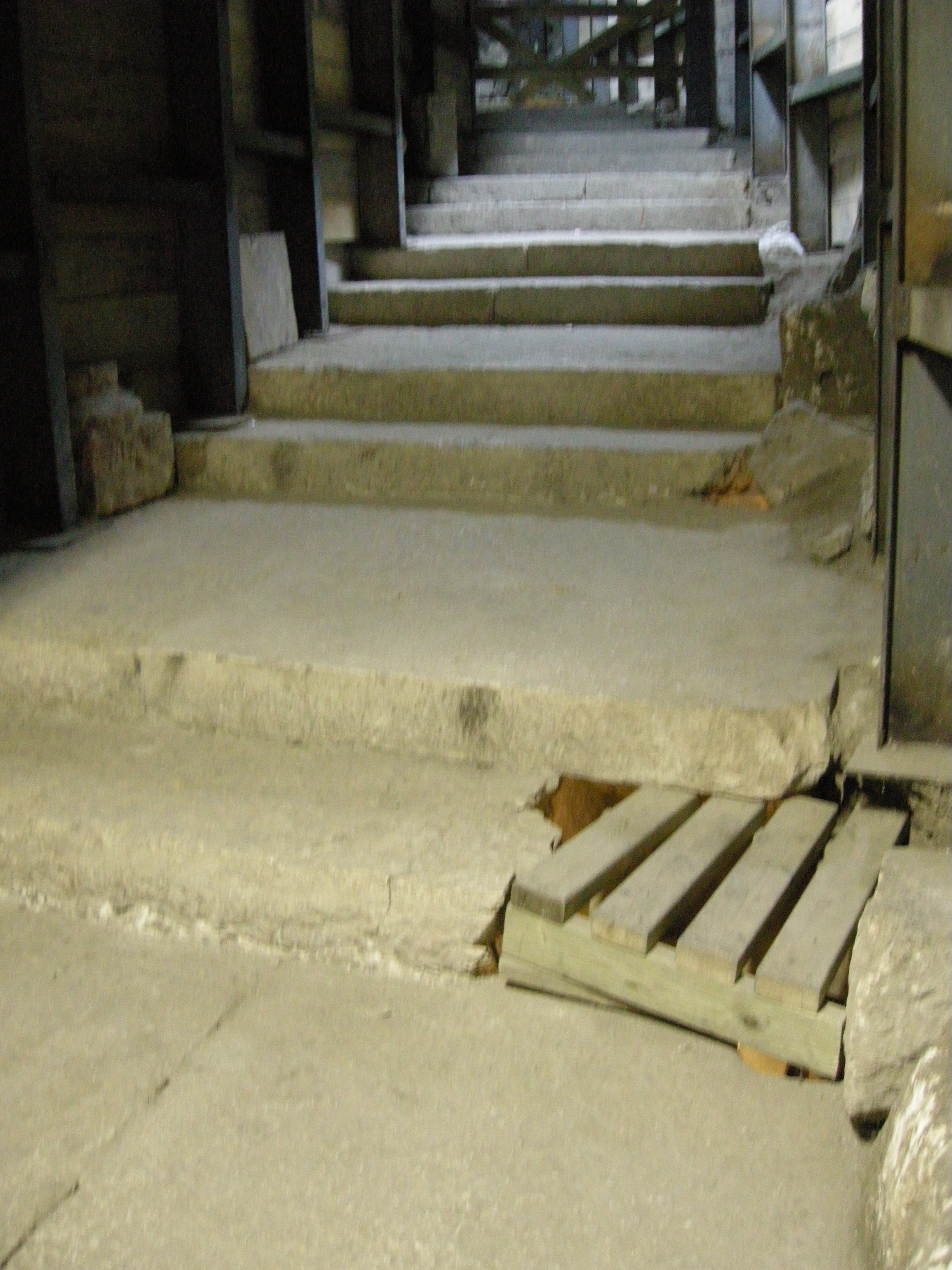 City of David